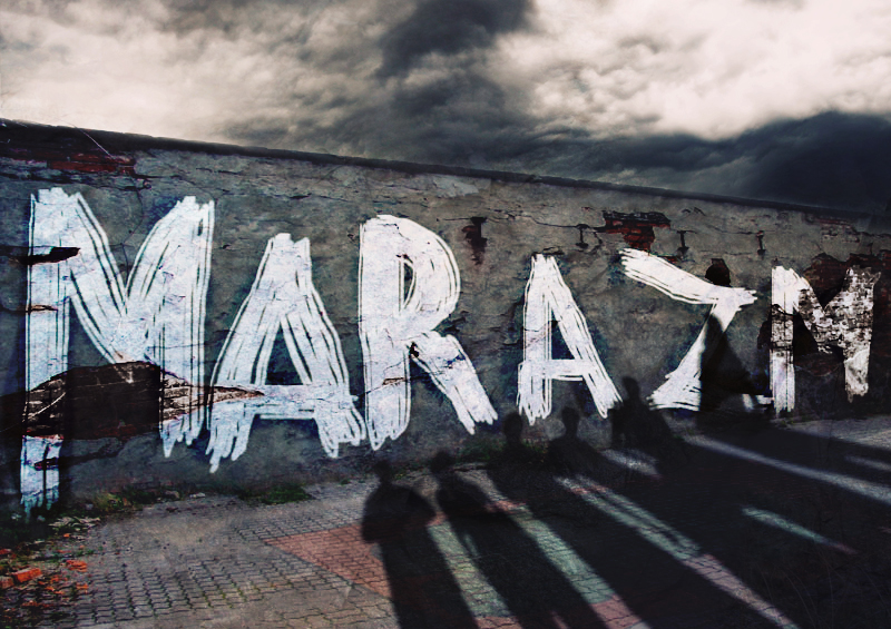 Marasmus...